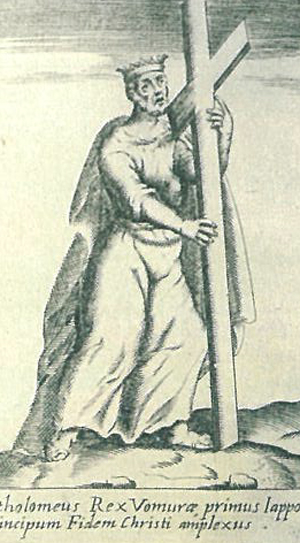 Ômura Sumitada (1533-1587), depicted with cross as the first Daimyô, who became Christian.